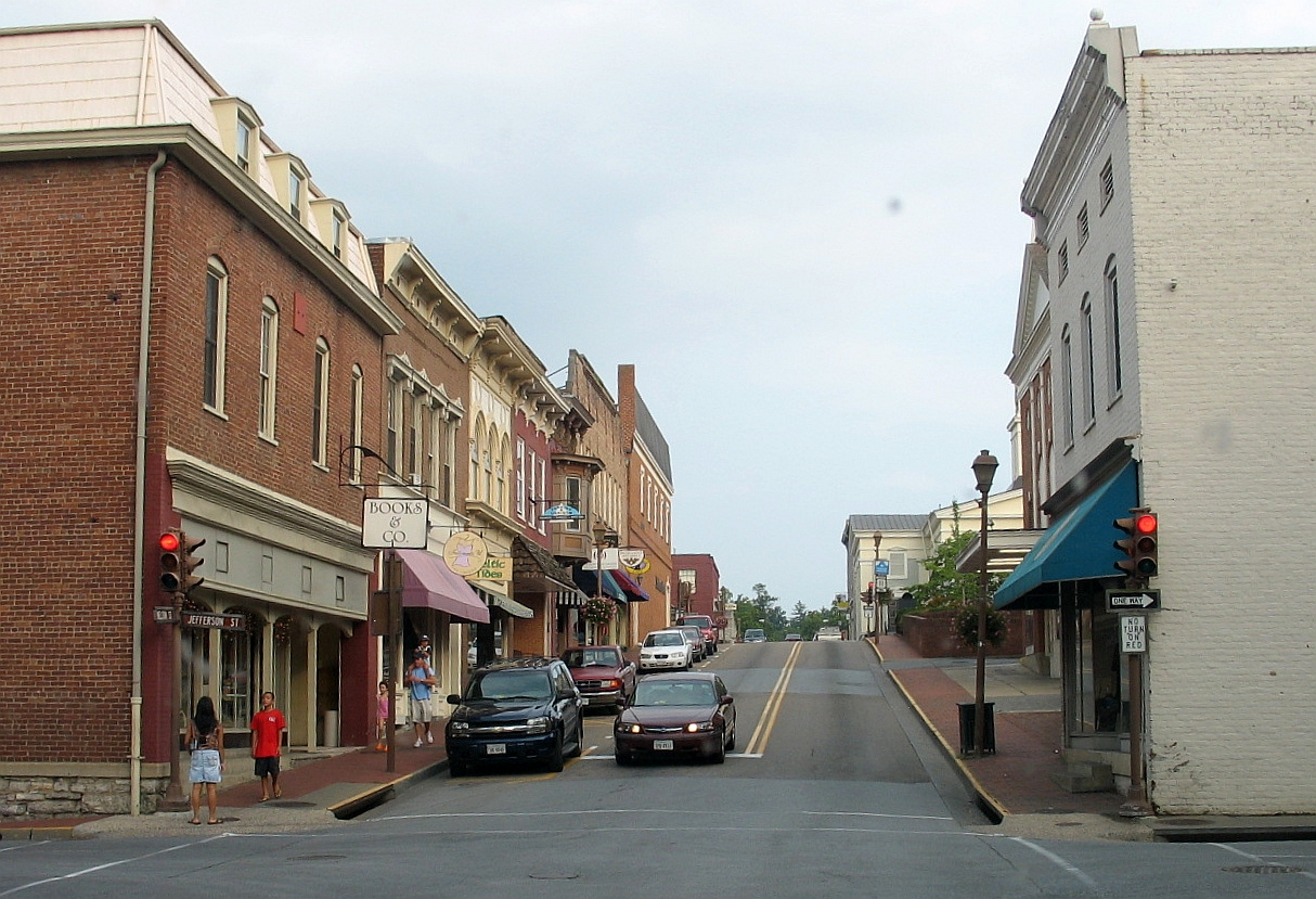 Downtown Lexington, Virginia, United States.